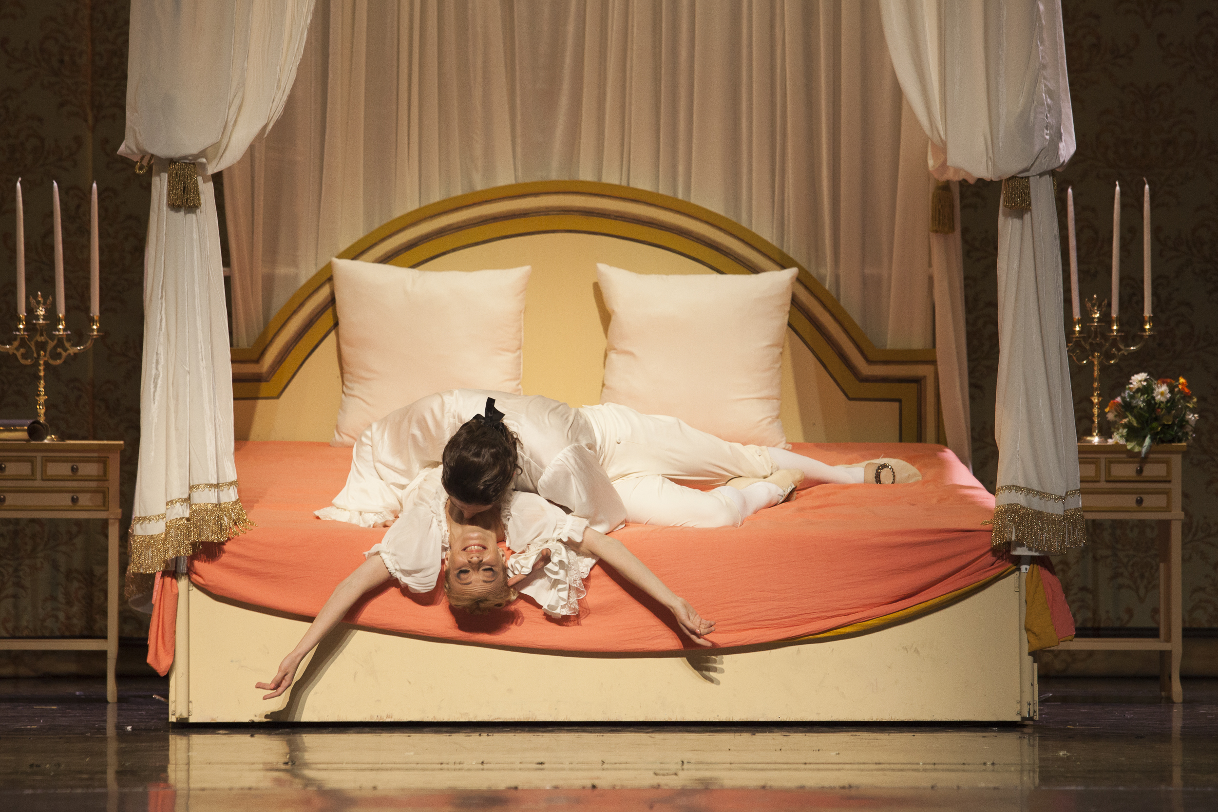 "Casanova in Warsaw" ballet by Krzysztof Pastor, Polish National Ballet, dancers: Aleksandra Liashenko as Mme Binetti & Vladimir Yaroshenko as Giacomo Casanova, set and costume design by Gianni Quaranta